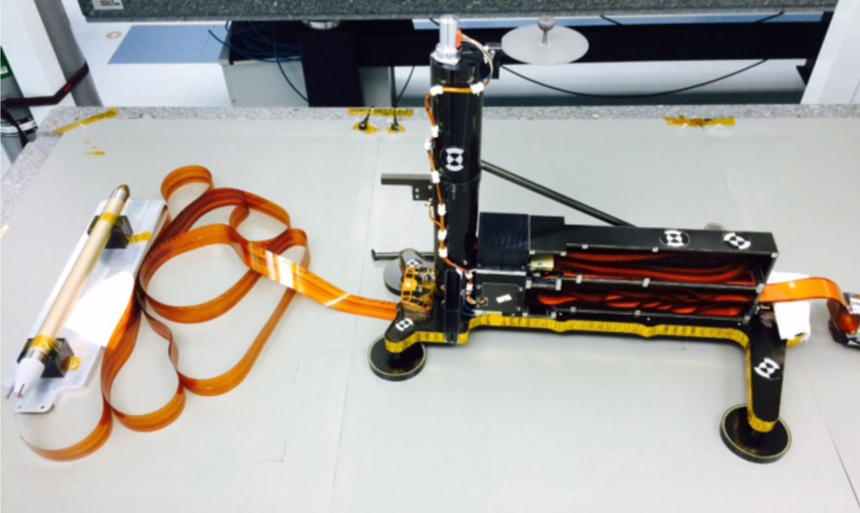 InSight's HP3 instrument Left to right: HP3 investigation's mole, science tether, support structure and engineering tether.